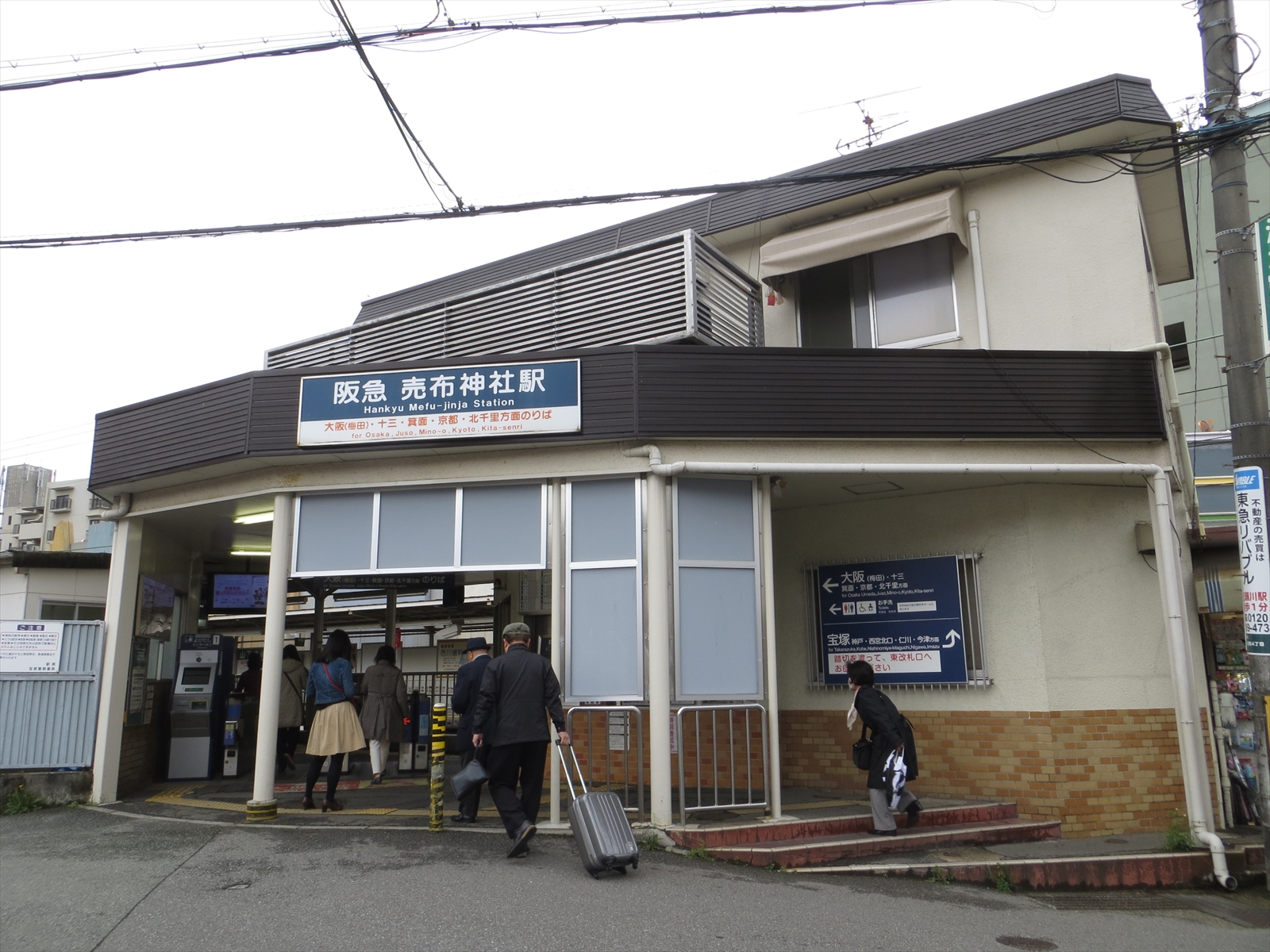 North Gate from Mefu-jinja Station.